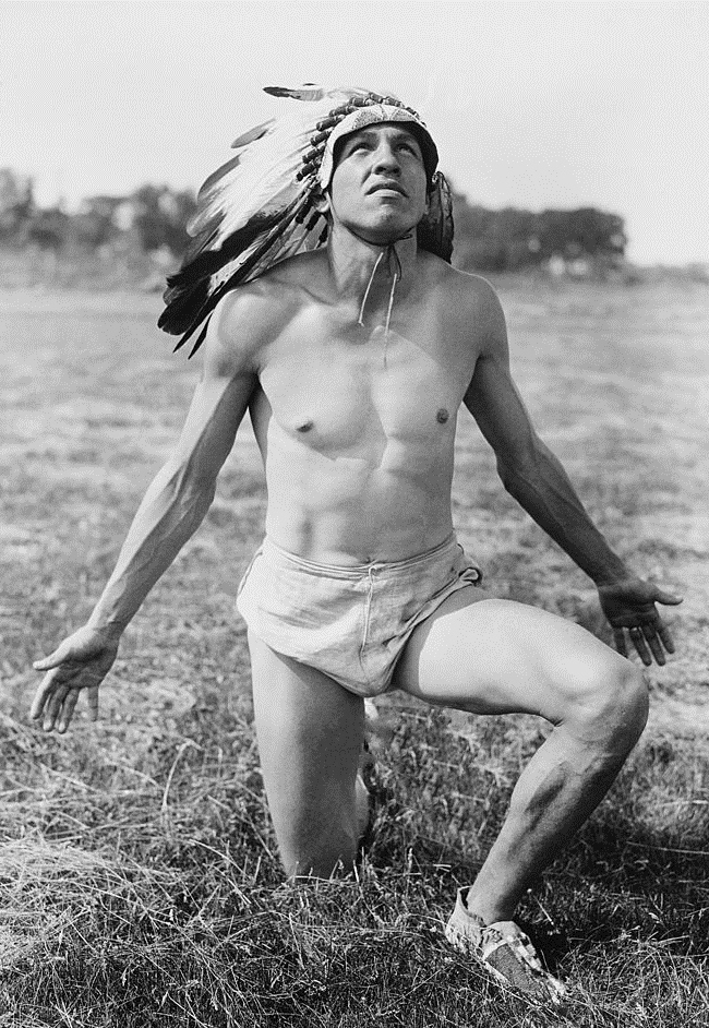 Indian Wilson Buster Charles Praying For Speed For The Next Olympic Games In Usa On 1932